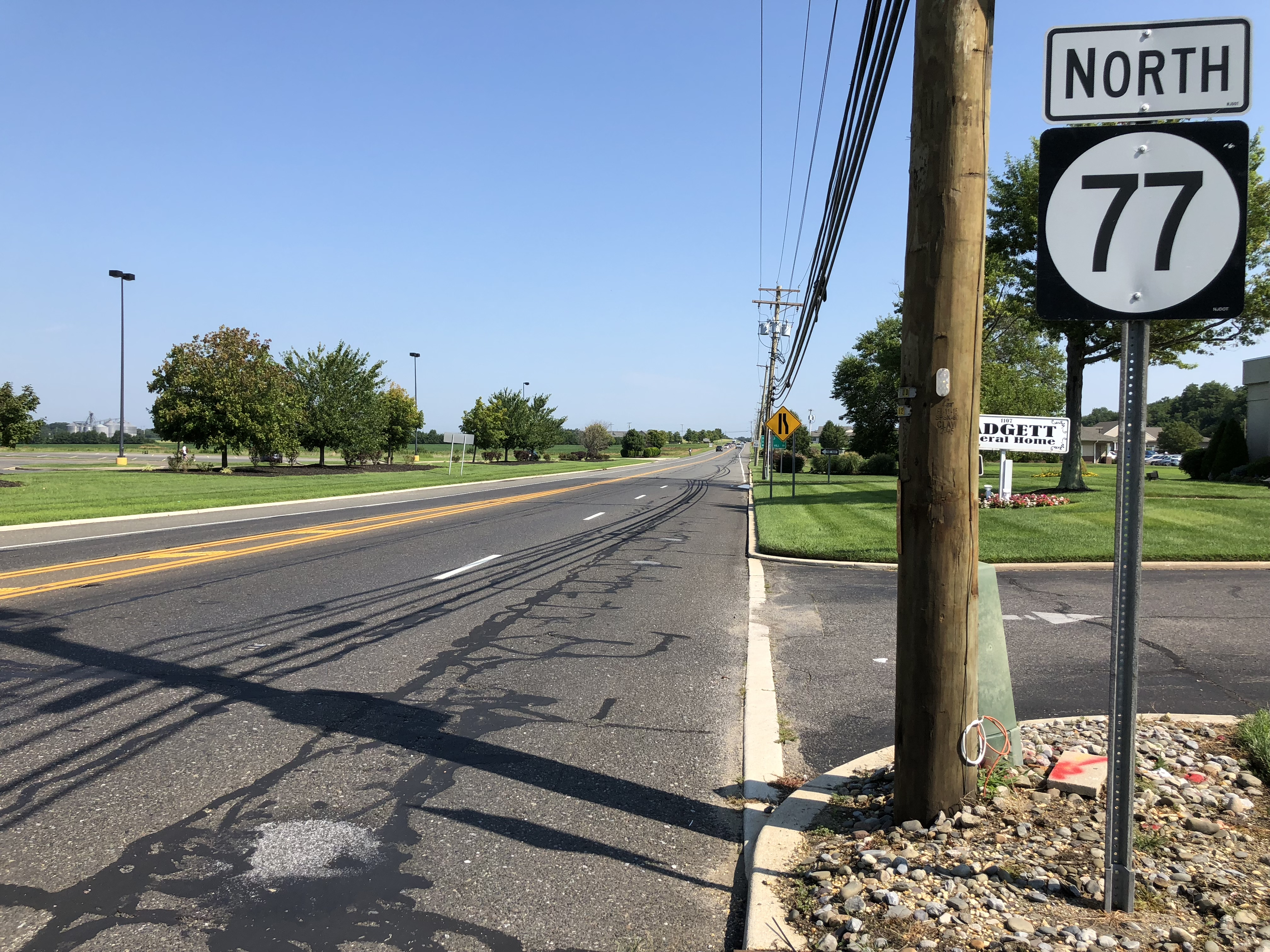 View north along New Jersey State Route 77 (Pole Tavern-Bridgeton Road) just north of Northwest Avenue in Upper Deerfield Township, Cumberland County, New Jersey